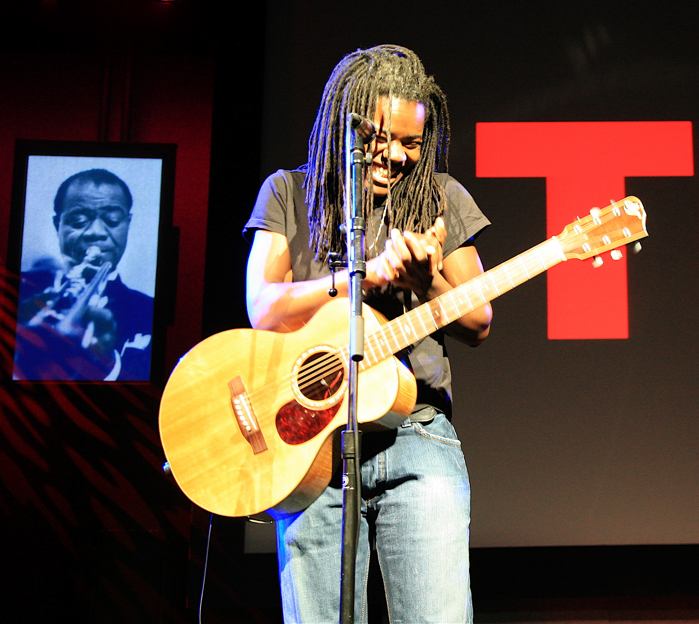 Chapman onstage at a TED conference in 2007